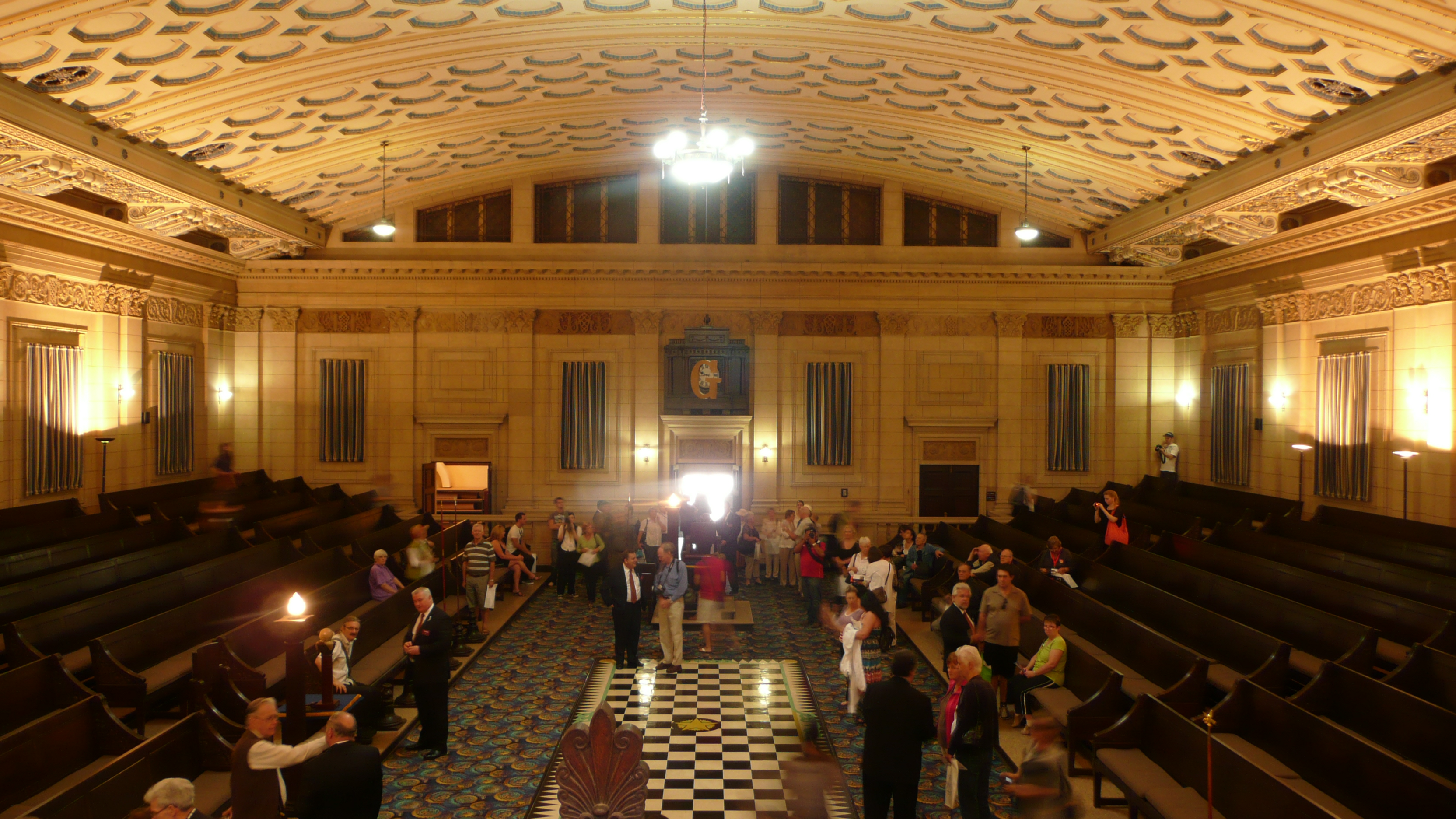 Grand Hall Masonic Memorial Temple, Brisbane